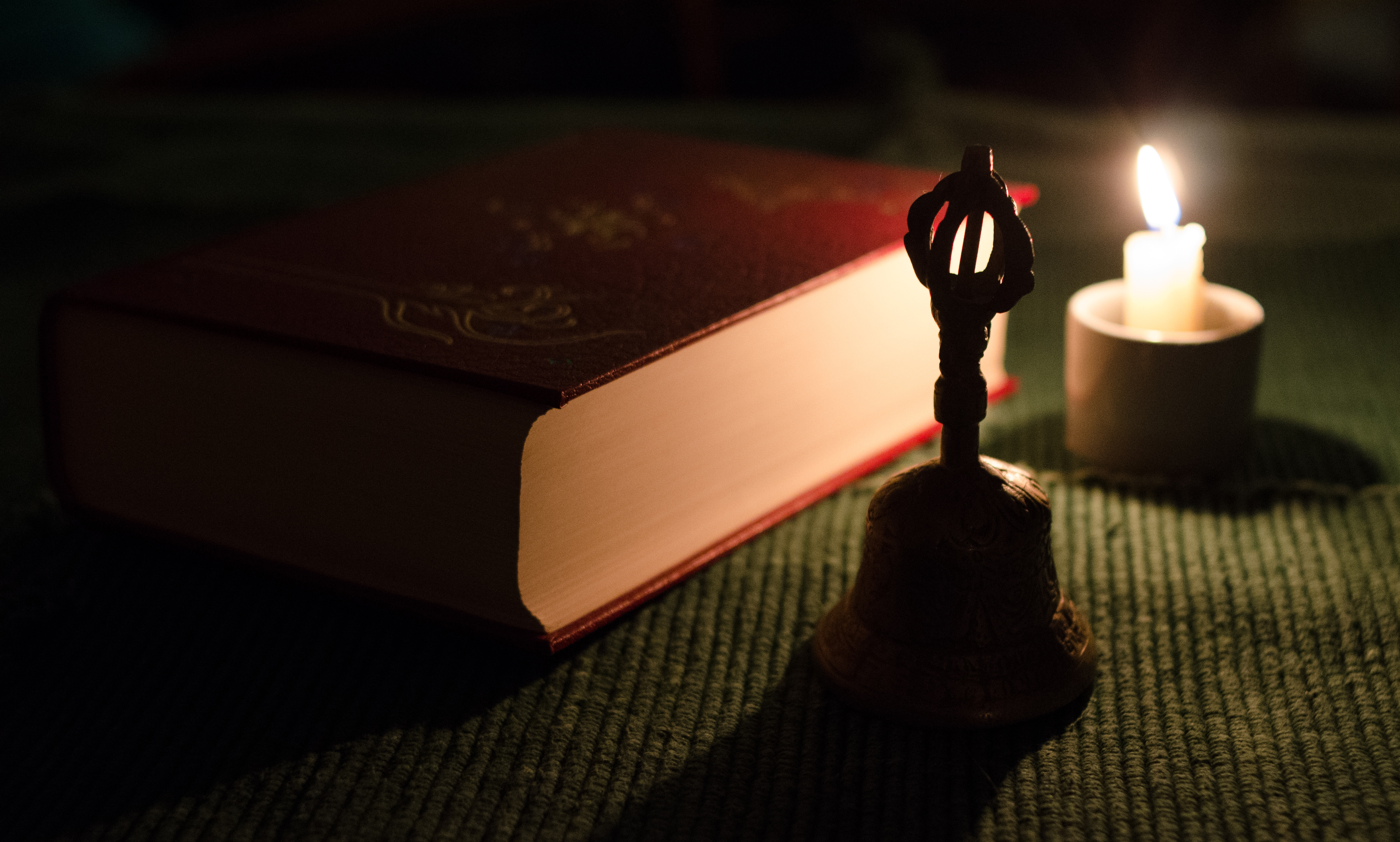 bell, book and candle (205/365)